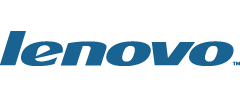 Lenovo logo